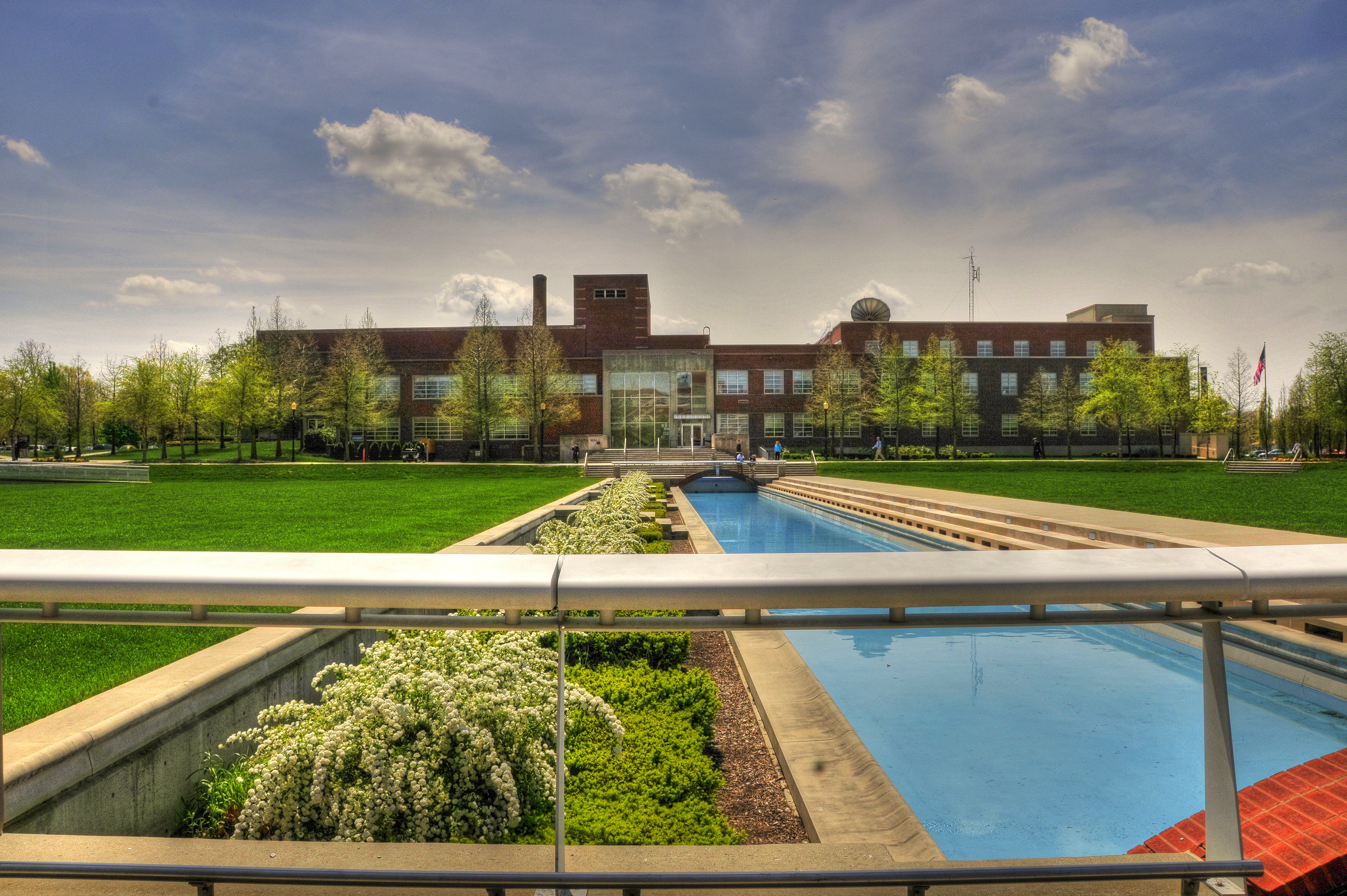 HDR Photomatix